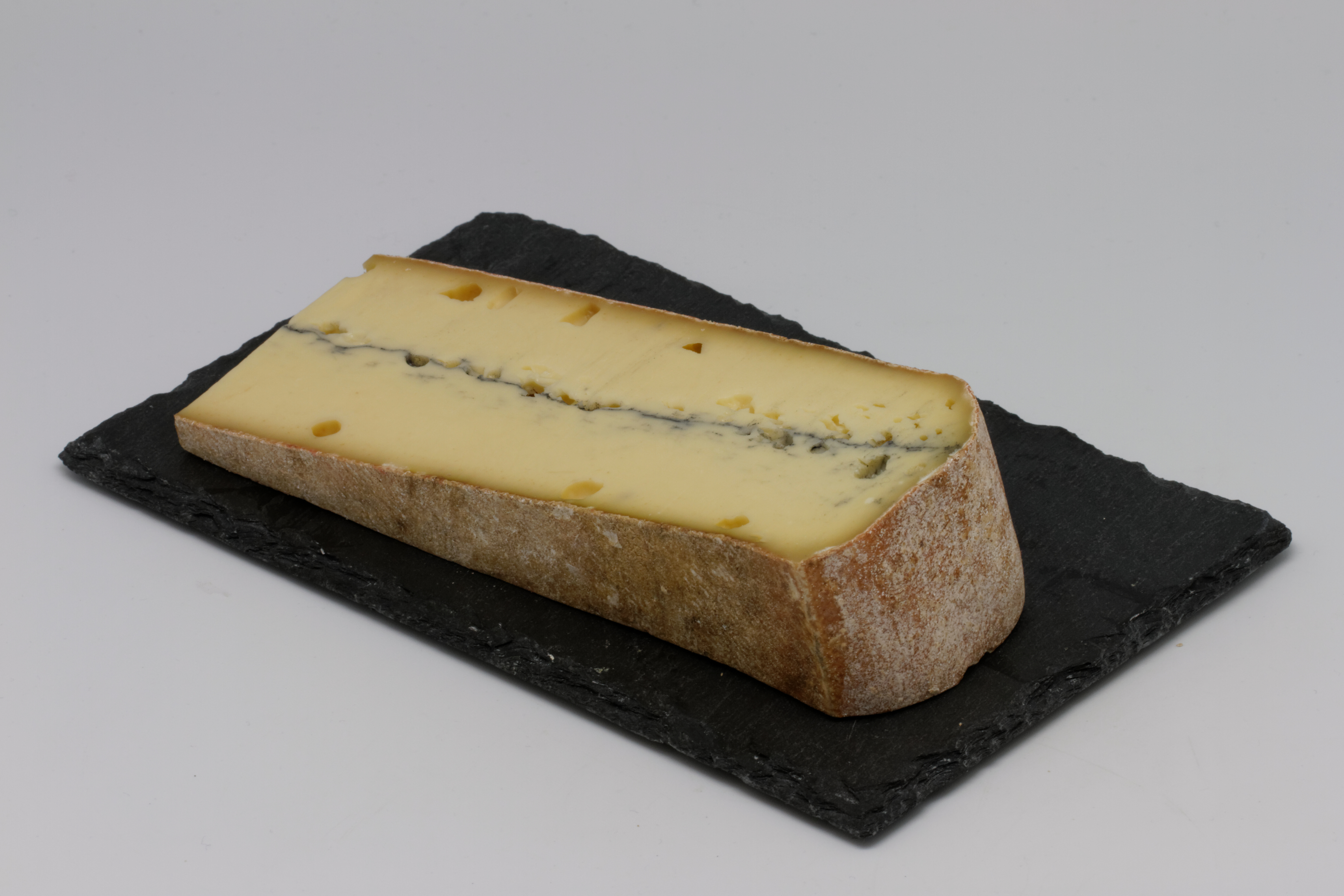 Morbier